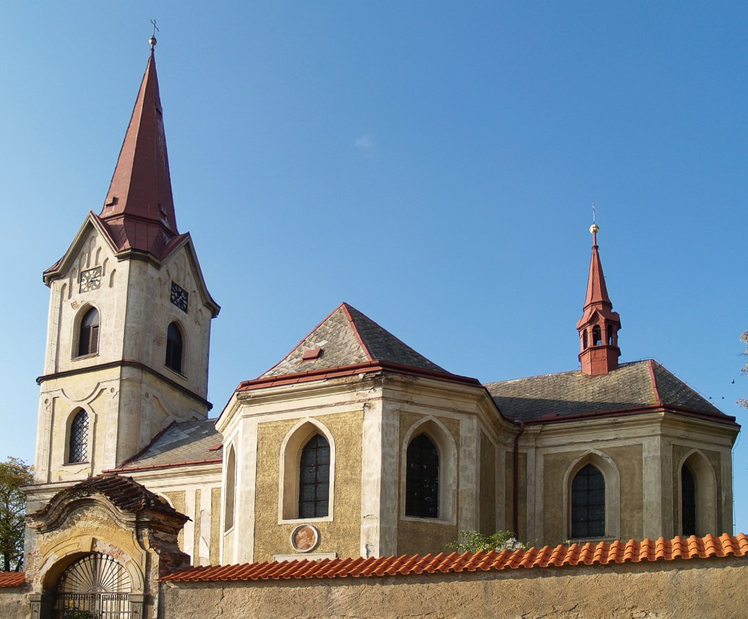 Church of St. Andrew, Stary Kolin, Czech Republic